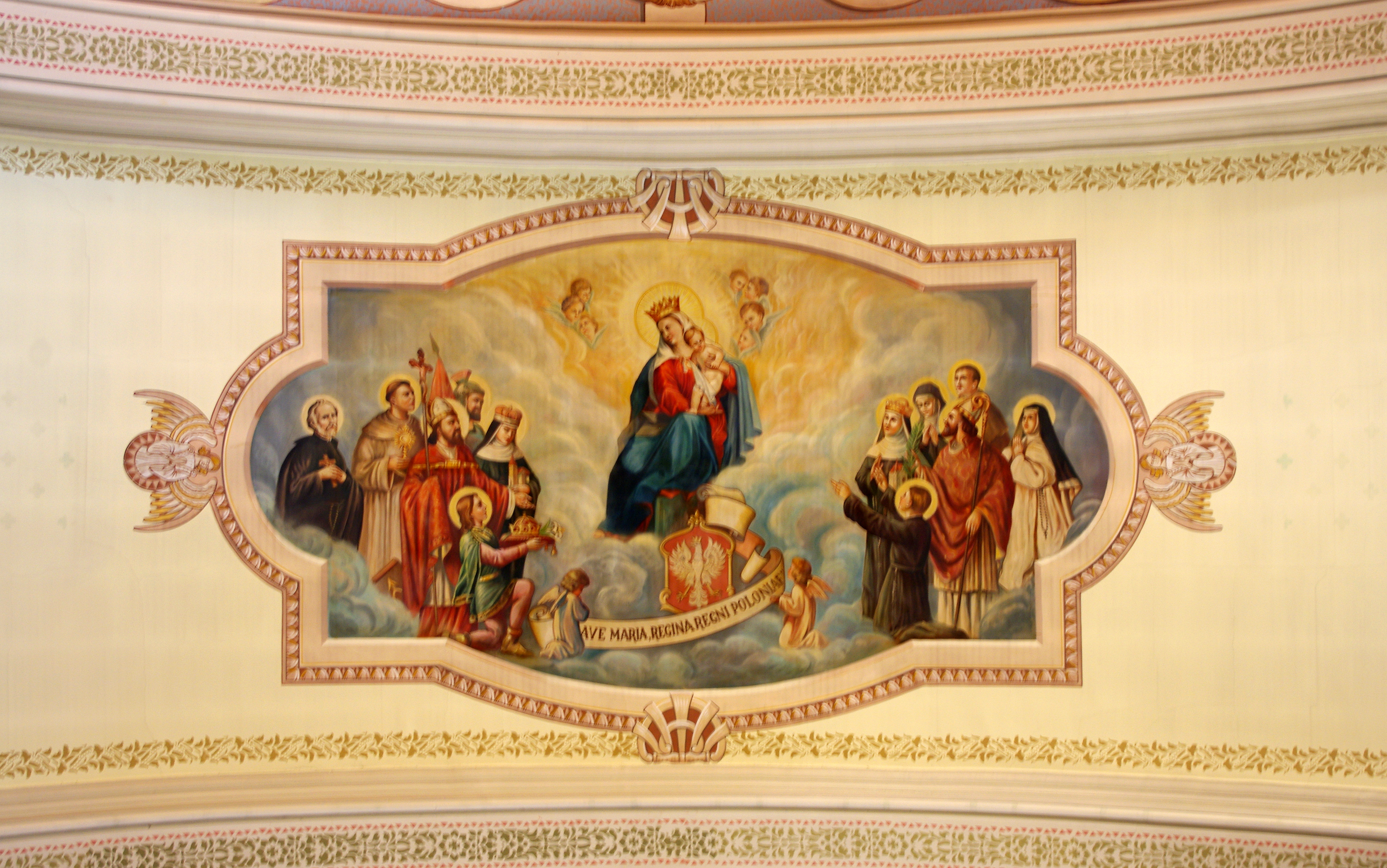 Saint Josaphat Catholic Church (Detroit, MI) - ceiling mural, Queen of Poland